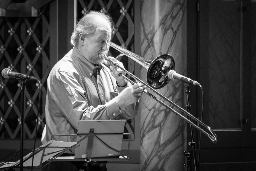 Gunnar Gotaas with Magnolia Jazzband and Topsy Chapman at the stage in Oslo Cathedral. The concert was part of Oslo Jazzfestival and took place on 17. August 2017. Lineup: Topsy Chapman (vocal), Anders Bjørnstad (trumpet), Georg Michael Reiss (clarinet), Gunnar Gotaas (trombone), Håkon Gjesvik (piano), Børre Frydenlund (banjo), Sebastian Haugen-Markussen (double bass) and Torstein Ellingsen (drums).